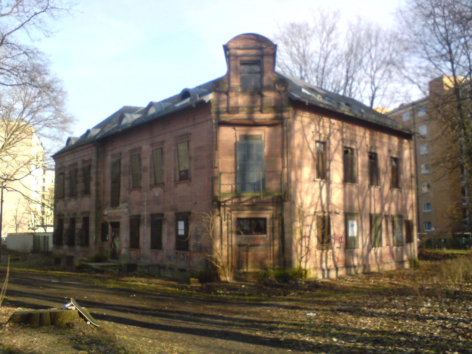 Hammerbachsche Villa (Schultheißallee 30), Nuremberg, Germany